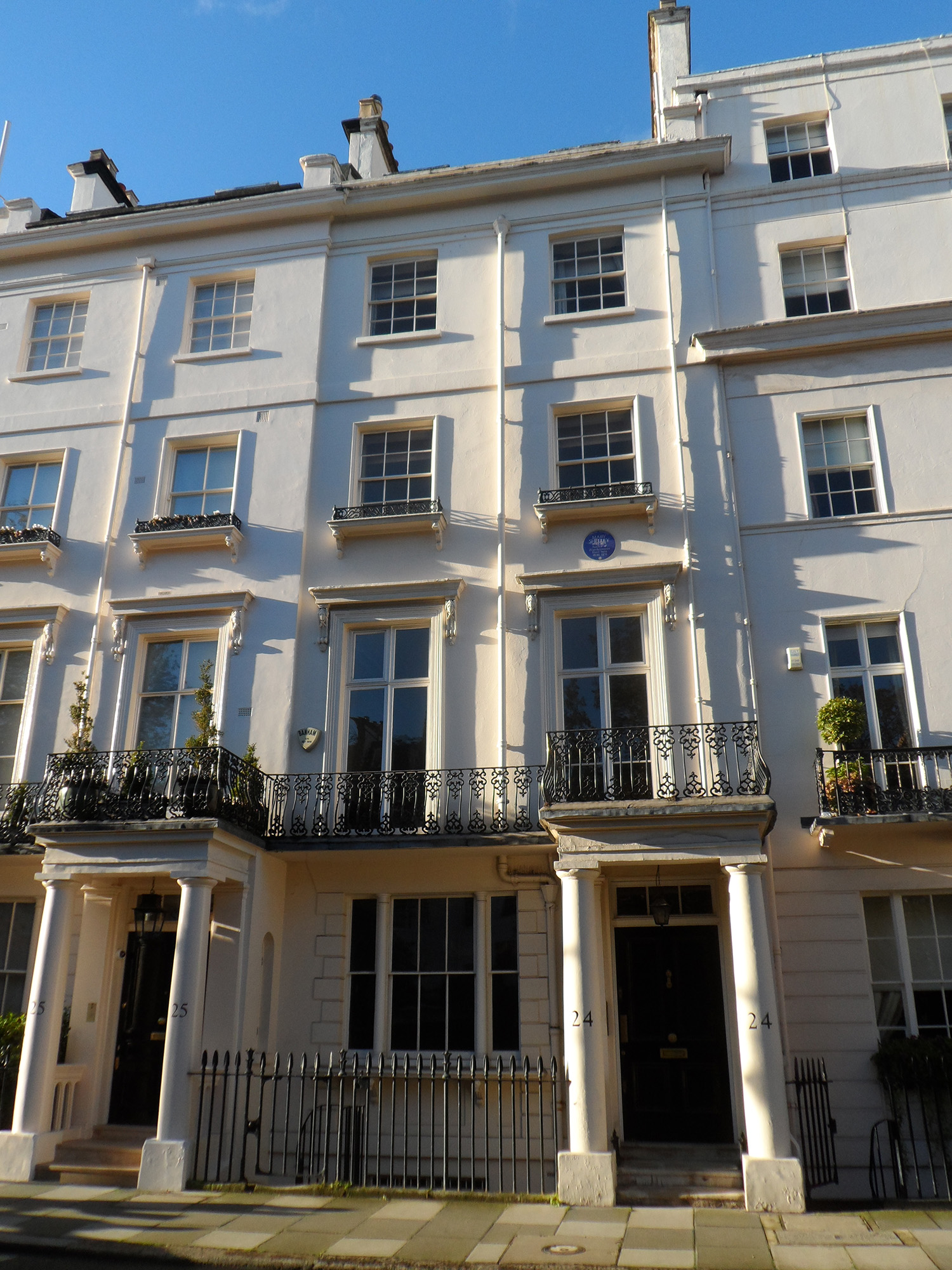 MARY SHELLEY 1797-1851 Author of Frankenstein lived here 1846-1851